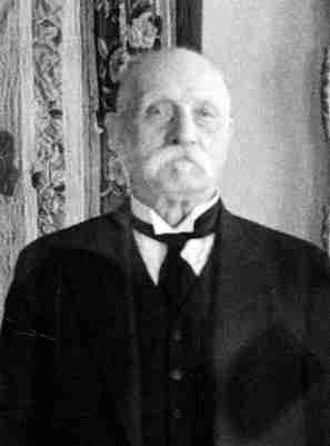 Антін Горбачевський, Ukrainian politician, member of Polish Senate 1922-1938, President of Ukrainian parliamentary grouping